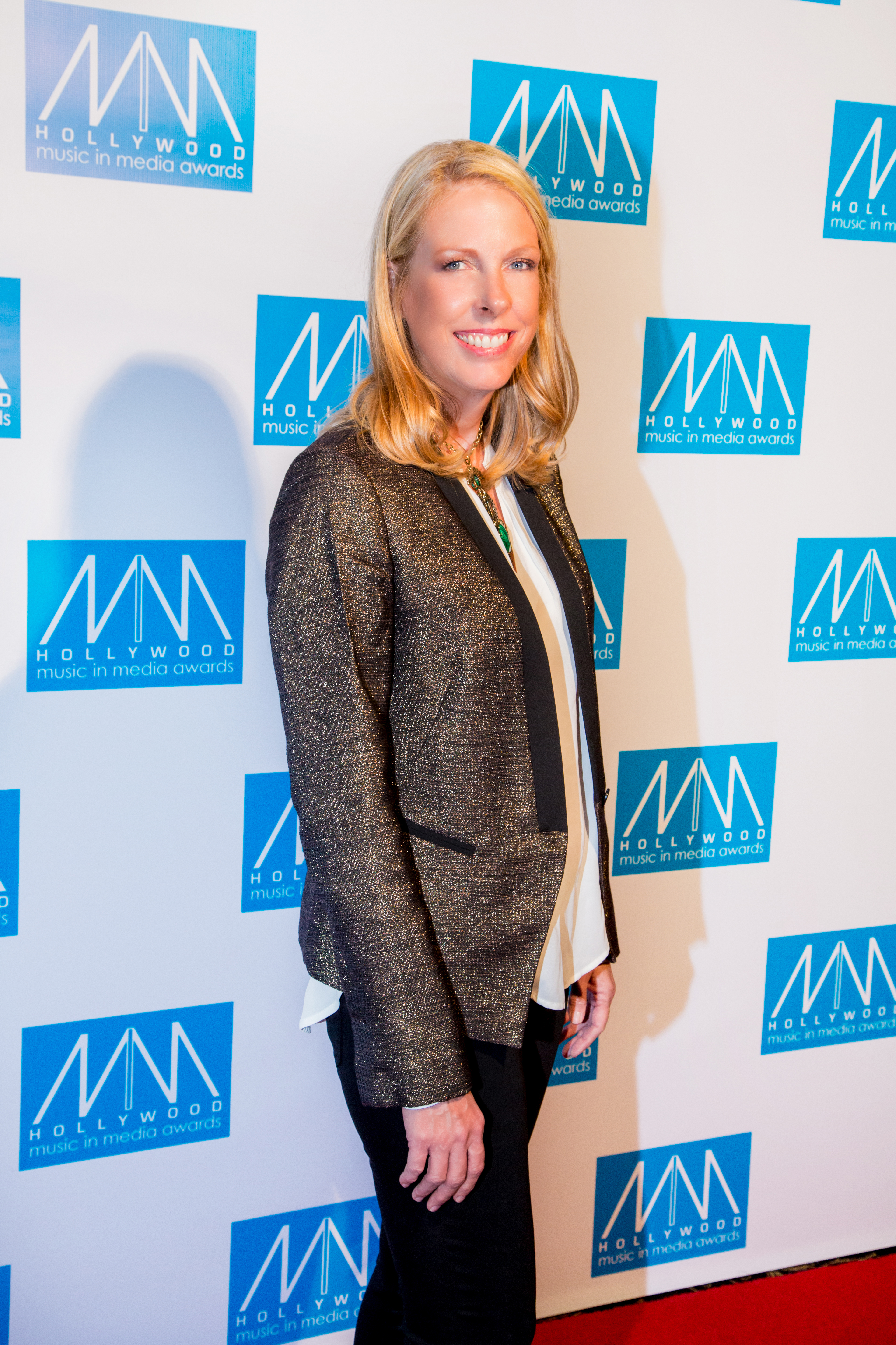 Elizabeth Butler on red carpet at Hollywood Music in Media Awards in gold blazer.